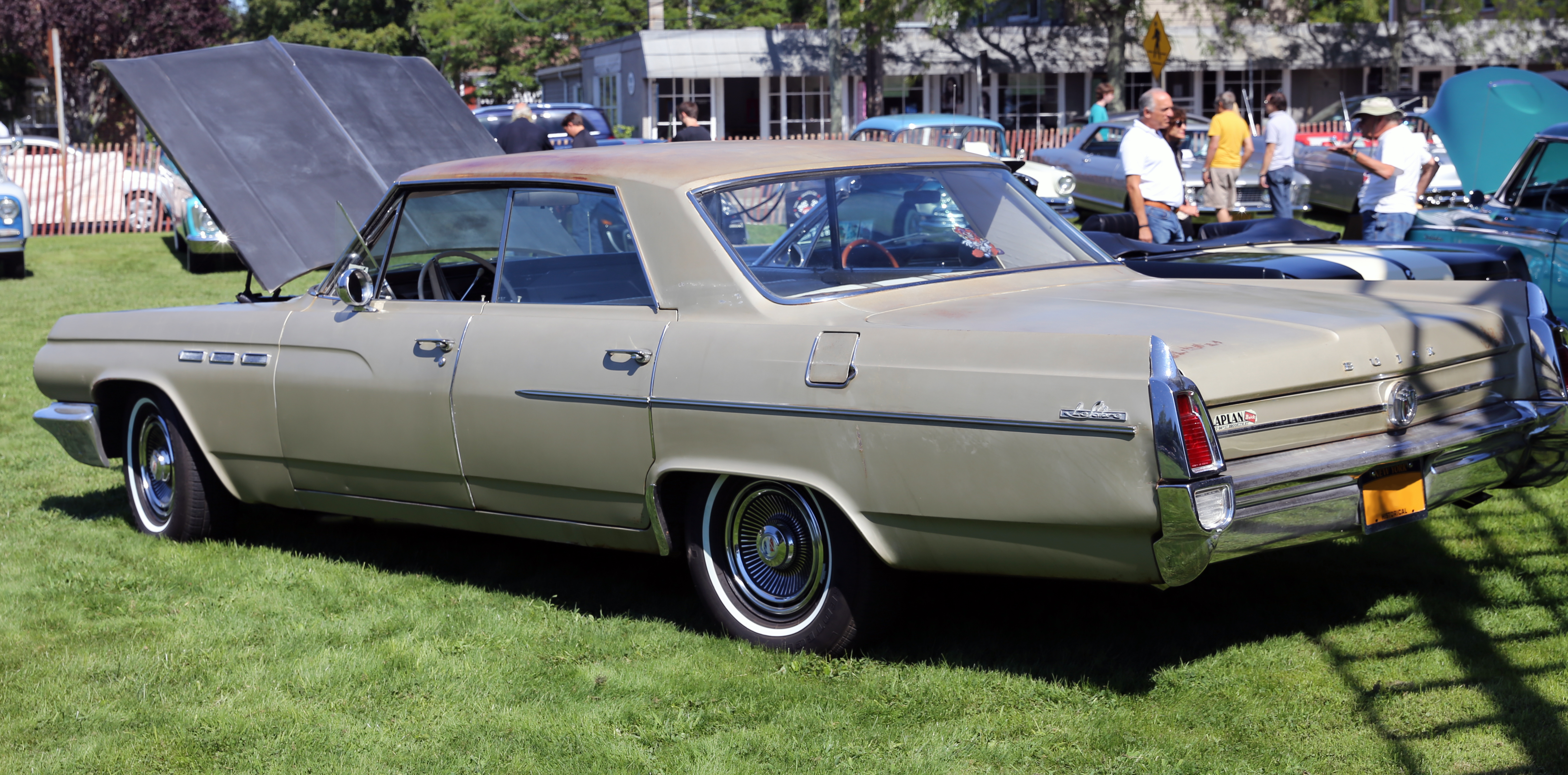 Rear left 3/4 view of a 1963 Buick LeSabre sedan, seen at a car show in Water Mill, NY.